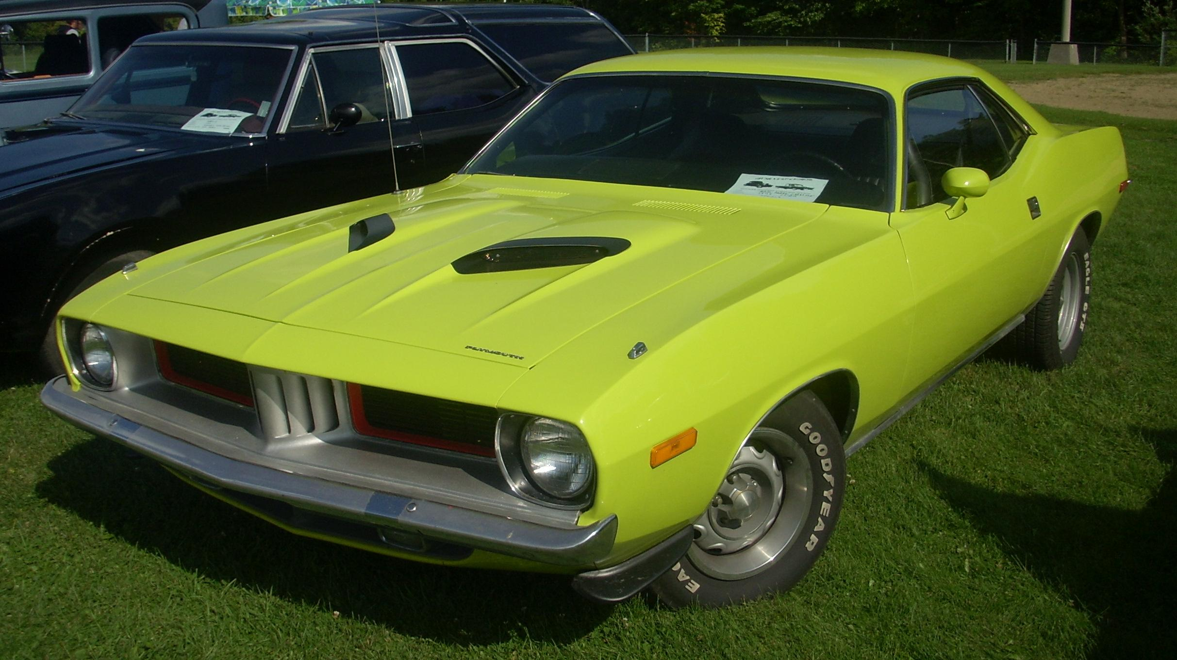 1974 Plymouth 'Cuda photographed at the Rassemblement Rigaud Car Show.